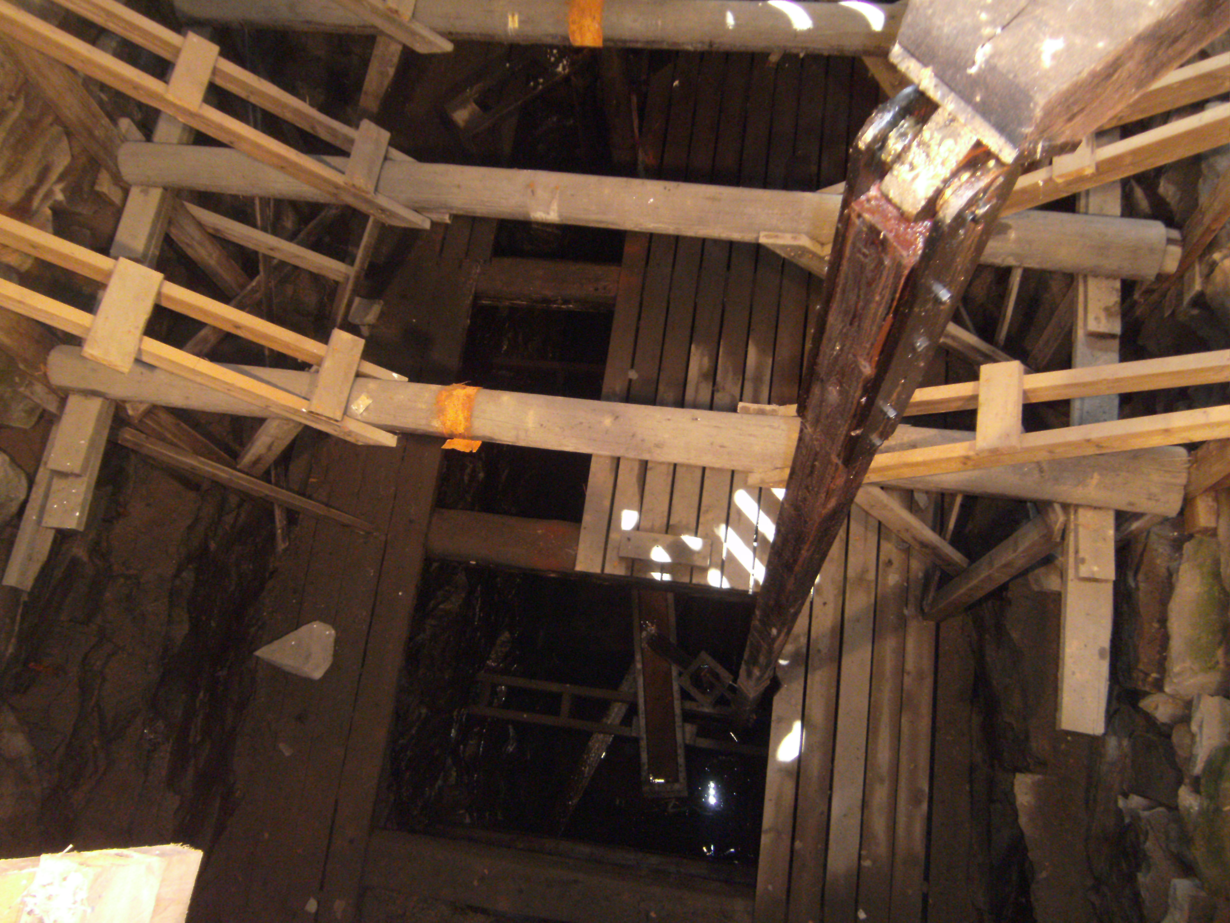 Wooden waterpump, still workning and pumping water from the mines at Fröå Gruva